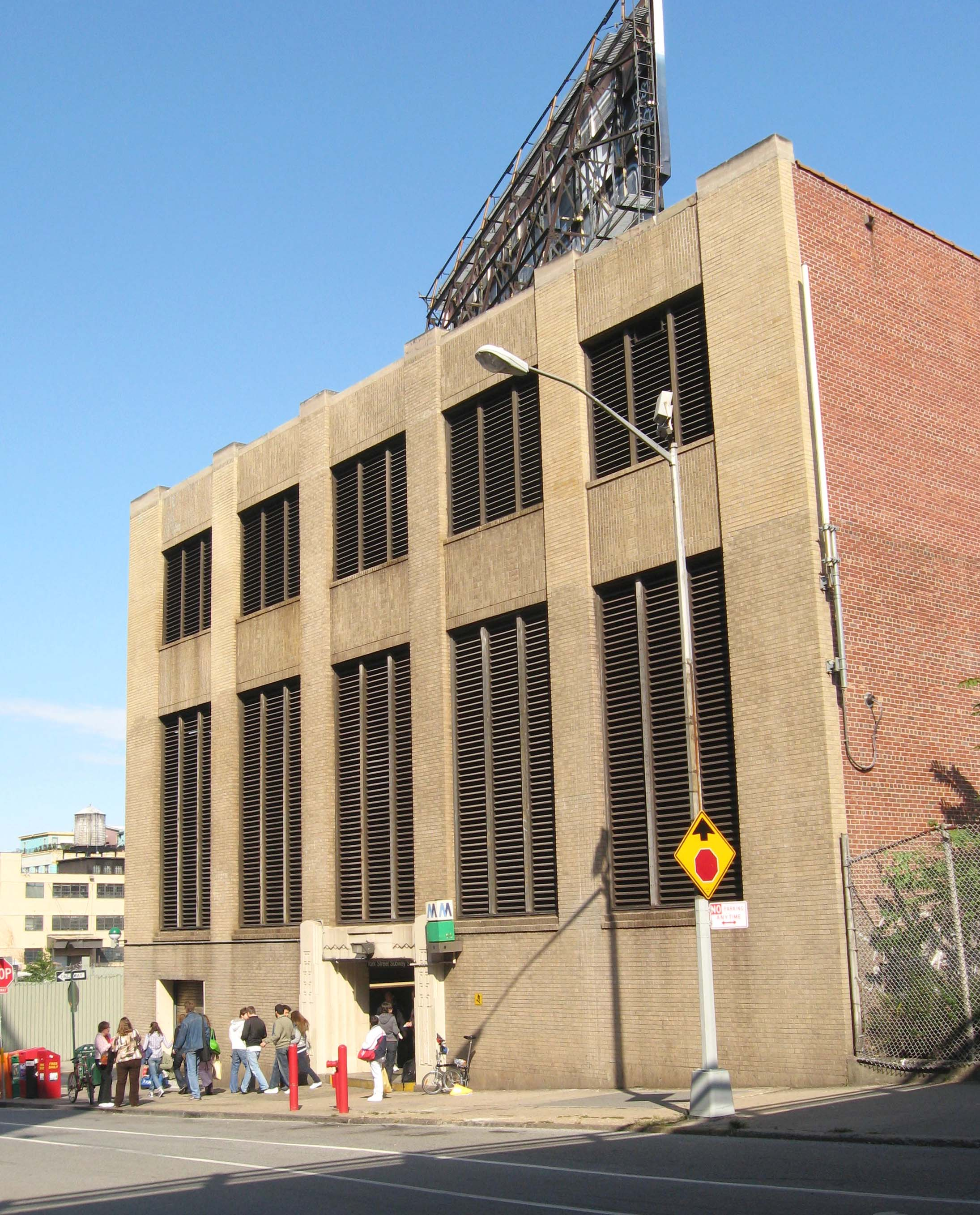 Looking northeast across Jay Street at the Brooklyn ventilation tower of Rutgers Street Tunnel on a mostly sunny midday for WTM. See also File:York IND Jay sta jeh.JPG.